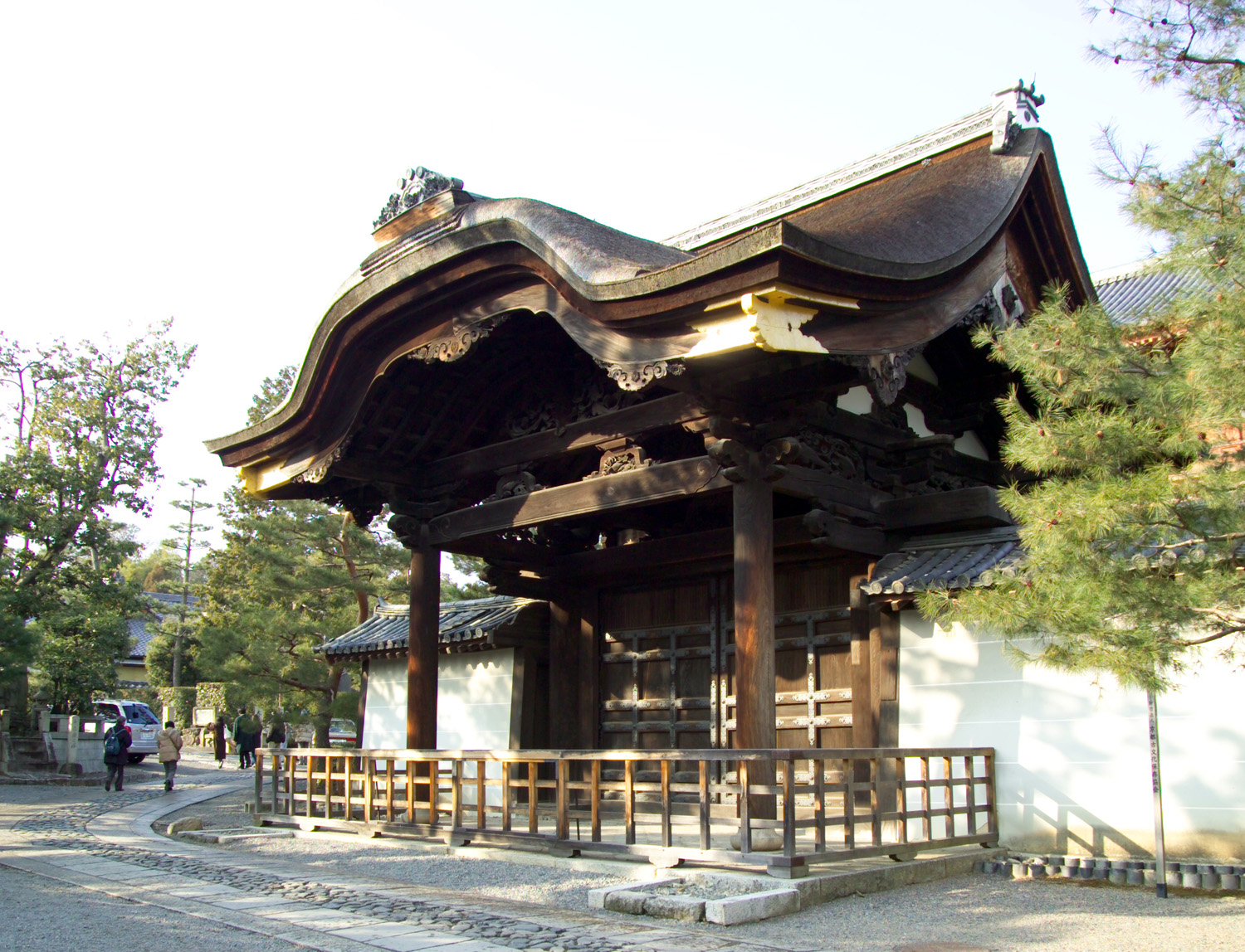 Chokushi-mon (Gate) at Daitoku-ji, Kyoto, Japan. I took the photo and contribute my rights in the file to the public domain; individuals and organizations retain rights to images in it.